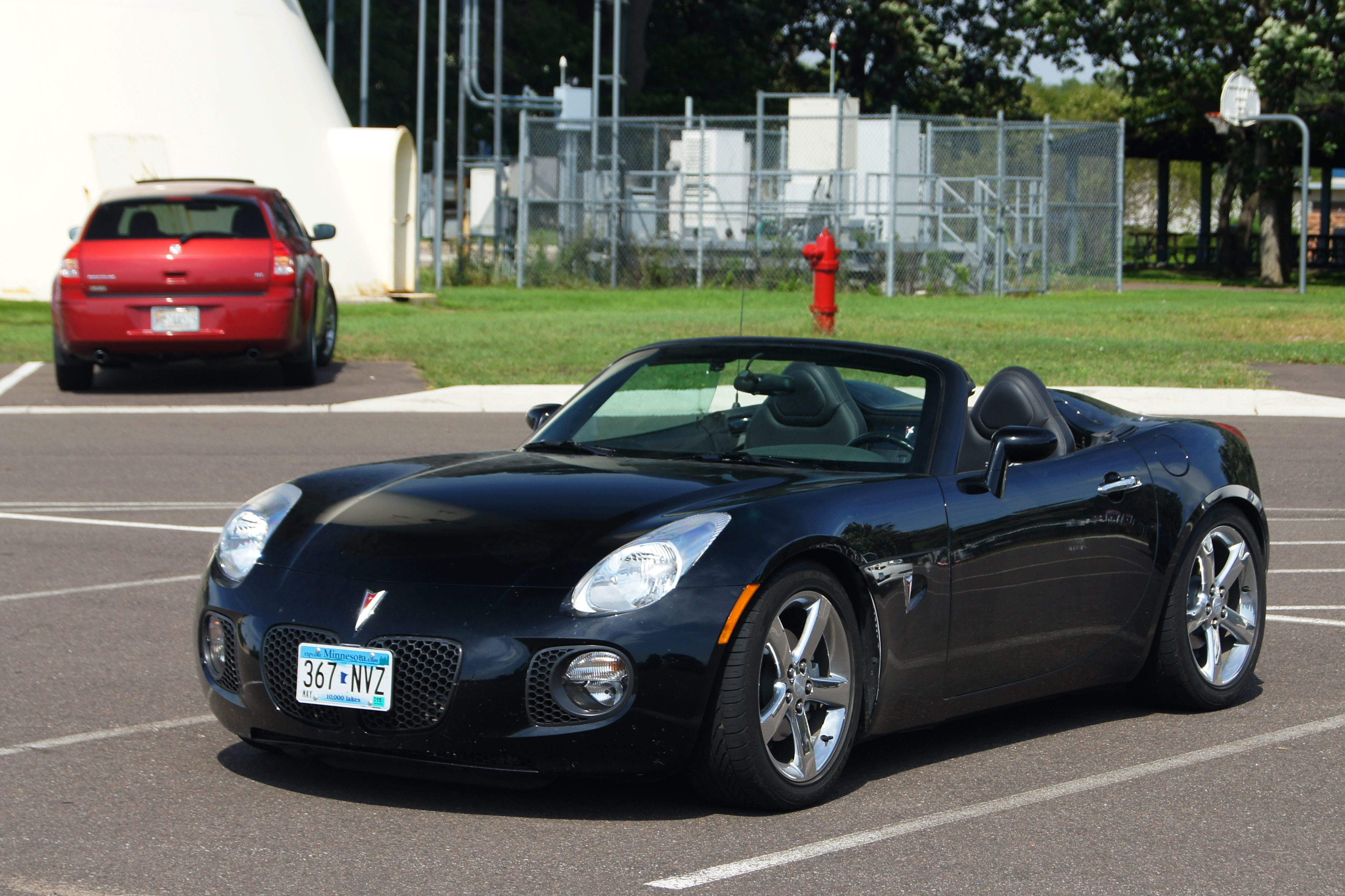 47th Annual Twin Cities Collectors Car Show & Swap Meet August 2014 Aquatore Park Blaine, Minnesota More car pictures separated by make by clicking on this Flickr link